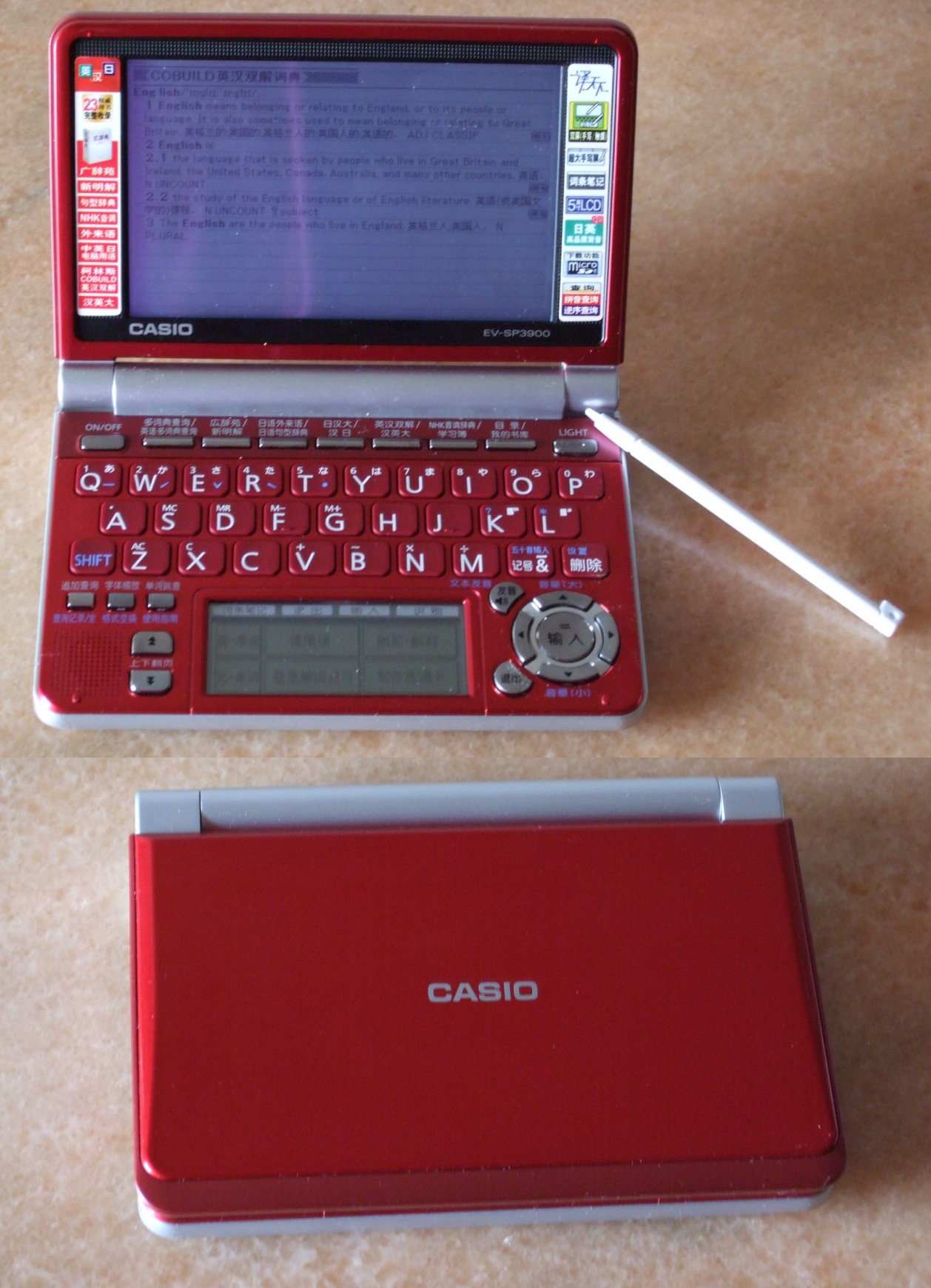 Image of a CASIO Electronic Dictionary, this product only sales in Mainland China, model number EV-SP3900.